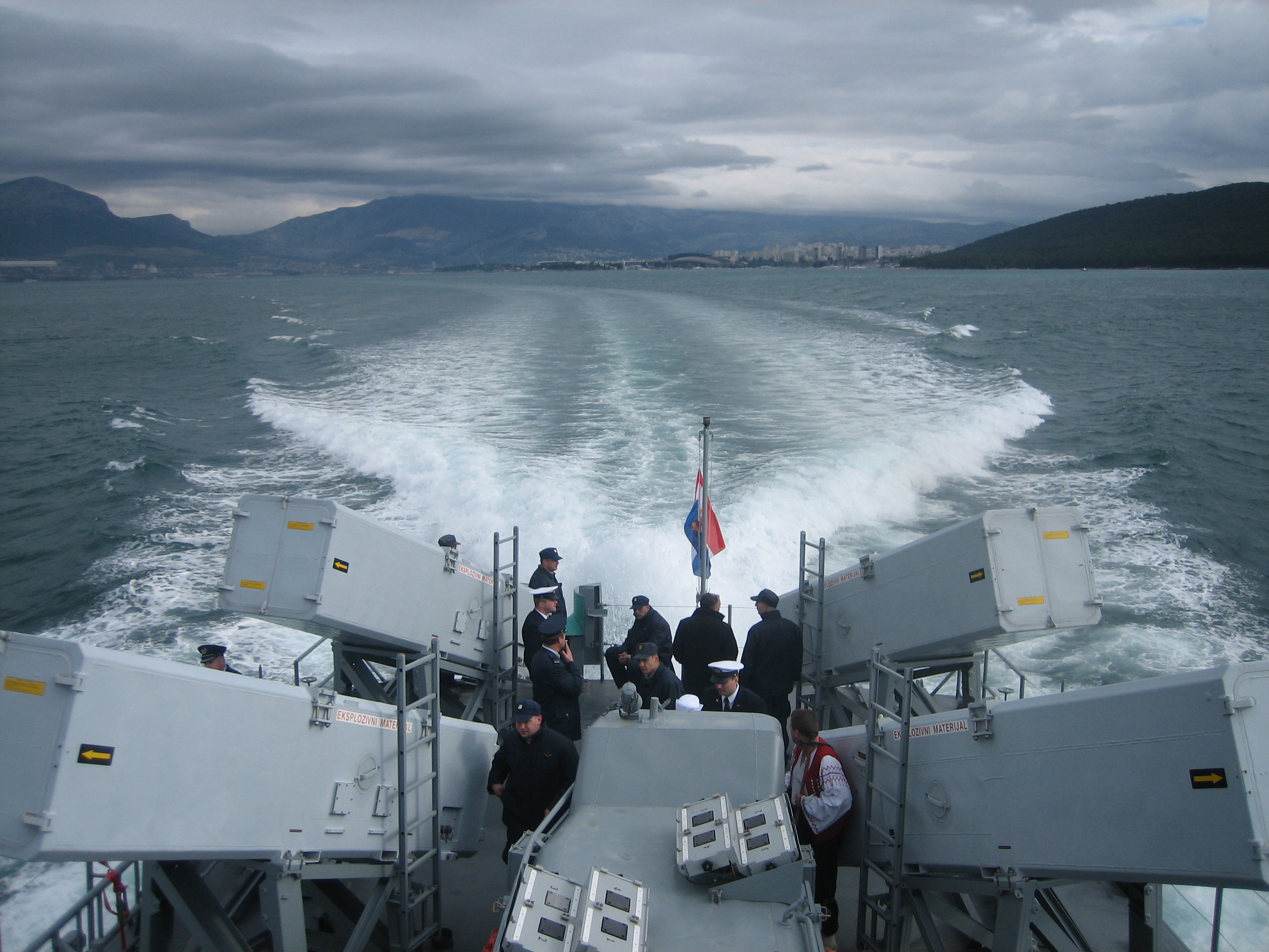 RBS-15 on Croatian Navy's RTOP-41 Vukovar